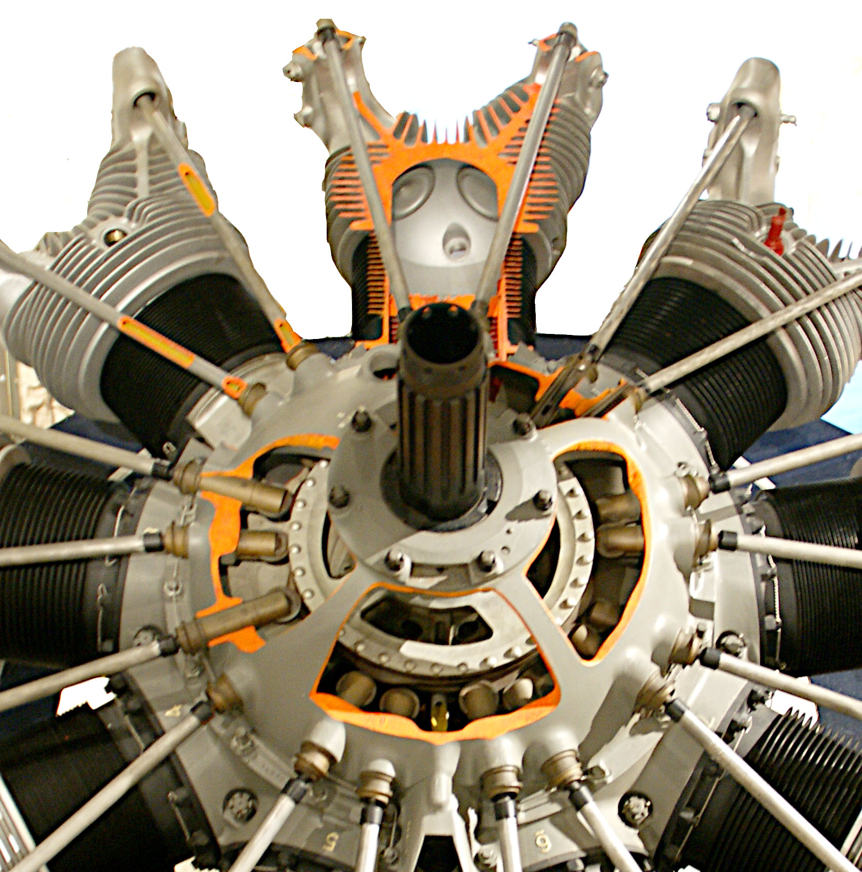 Pratt & Whitney R-1690 Hornet piston engine with chamber walls cut away to show internal workings. On display at Pacific Aviation Museum, Pearl Harbor, Hawaii.